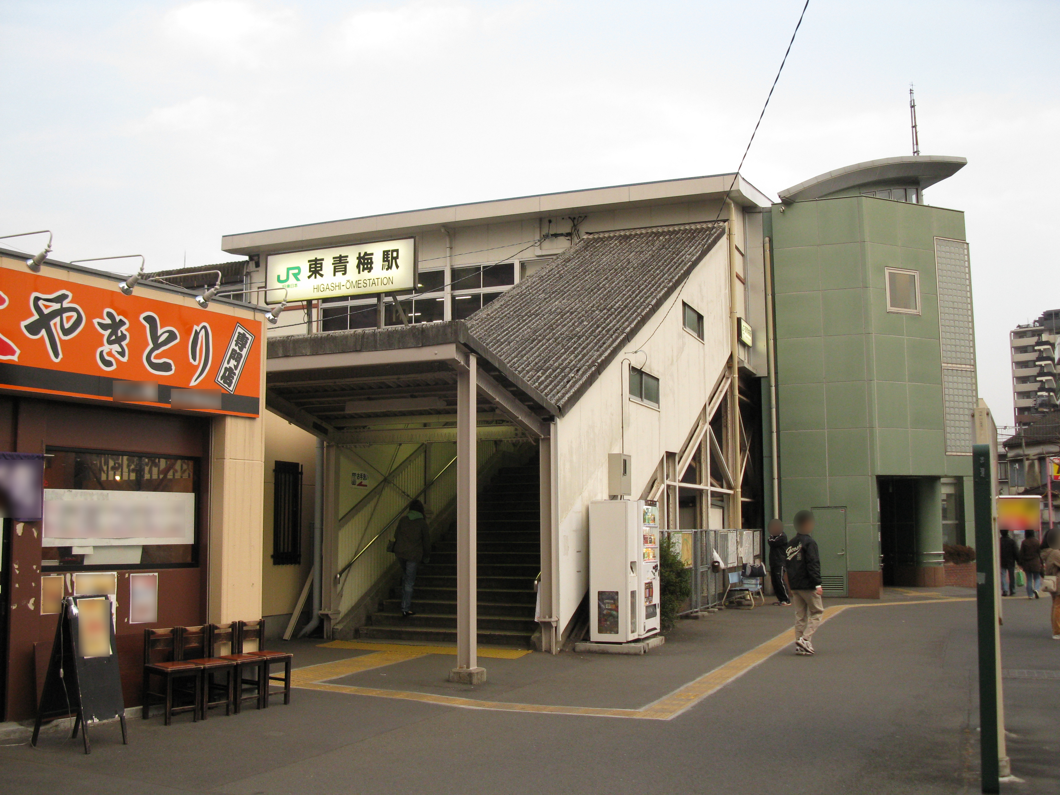 Higashi-Ōme Station south entrance (East Japan Railway Ōme Line)